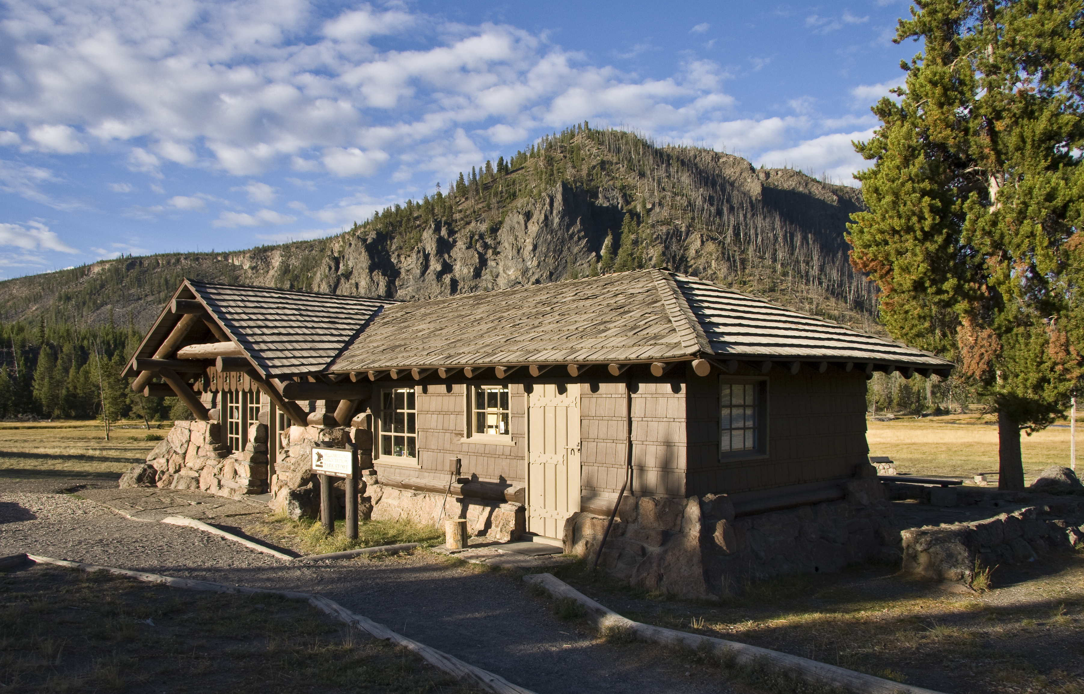 Madison Museum, with National Park Mountain behind, in Yellowstone National Park, Wyoming, USA. A National Historic Landmark.